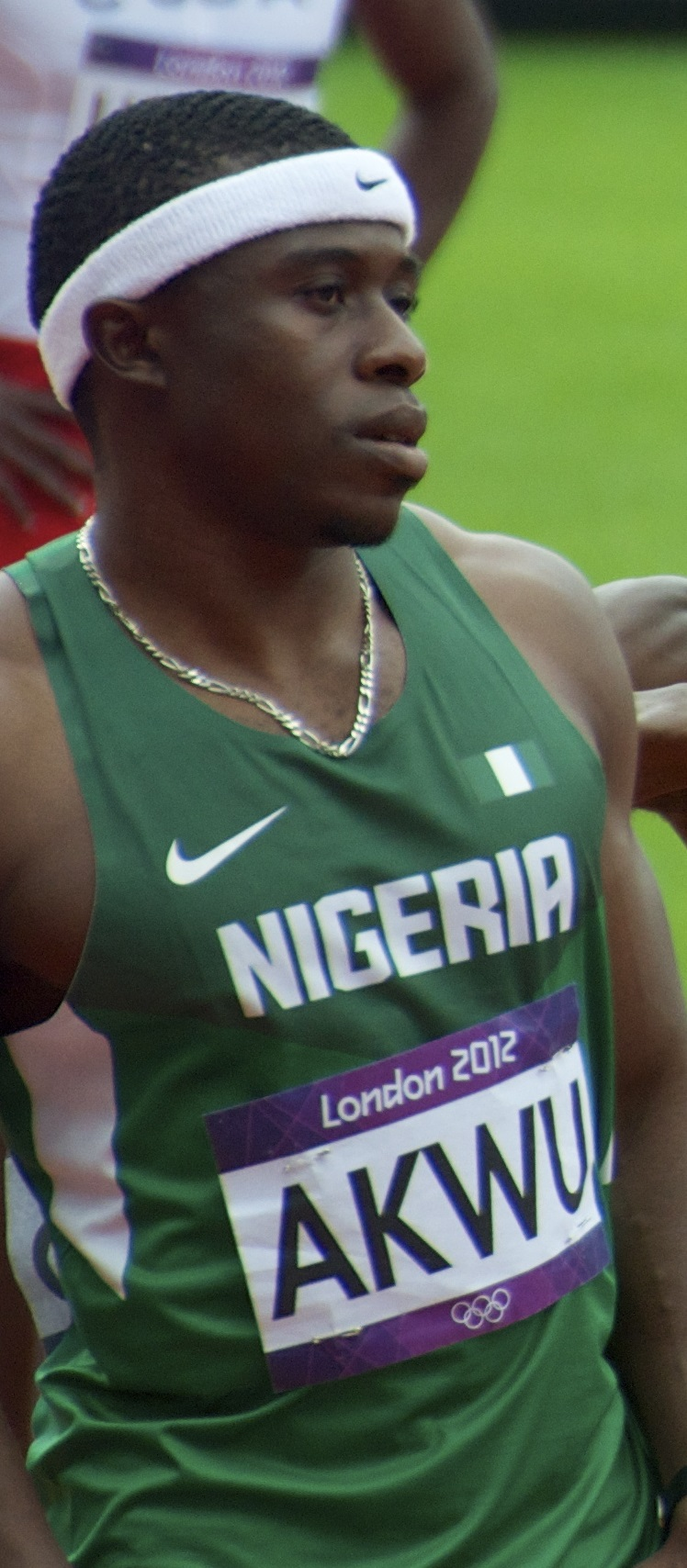 Noah Akwu at 2012 London Olympic Games - Men's 100 metres